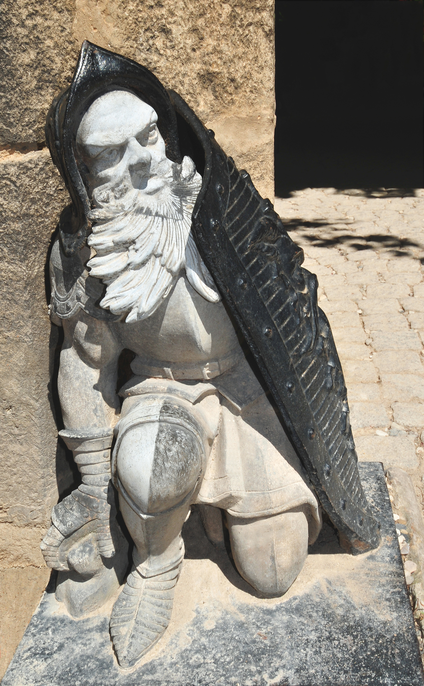 Guard stone in Marienburg Castle, Lower Saxony, Germany. The castle mustn't be confused with the Marienburg near Hildesheim.